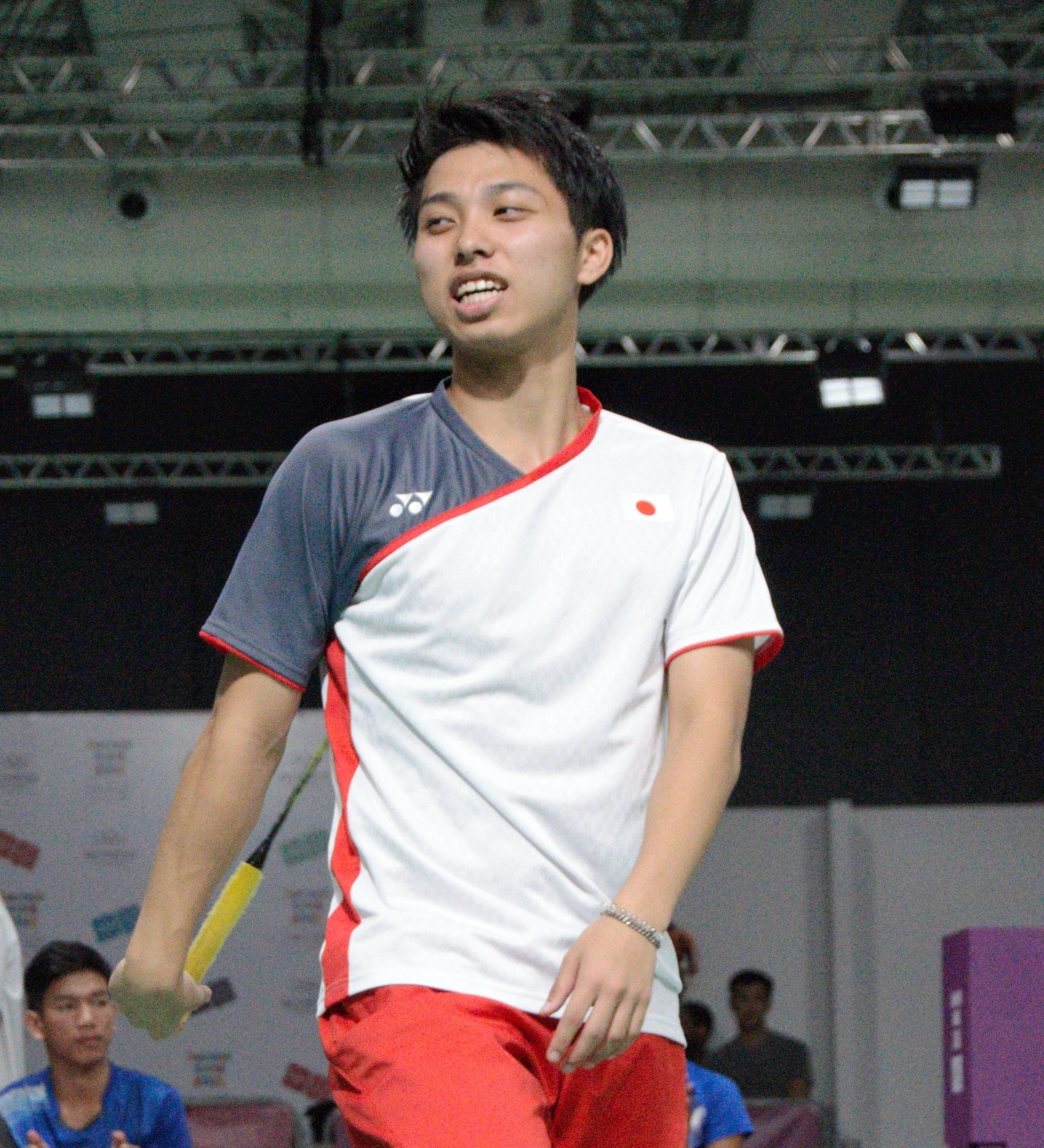 Bronze medal match for the badminton mixed relay team tournament at the 2018 Summer Youth Olympics. Match 7.